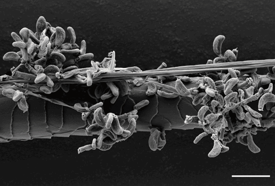 Scanning electron micrograph of a bat hair colonized by Geomyces destructans. Scale bar = 10 µm